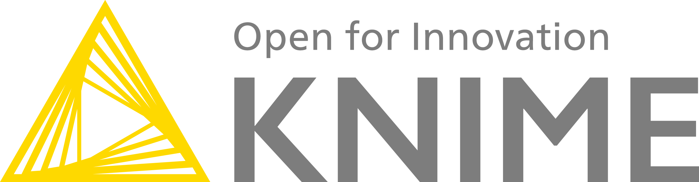 KNIME - The Open Analytics Platform